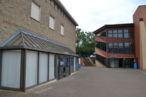 Banbury and Bicester College - Banbury campus